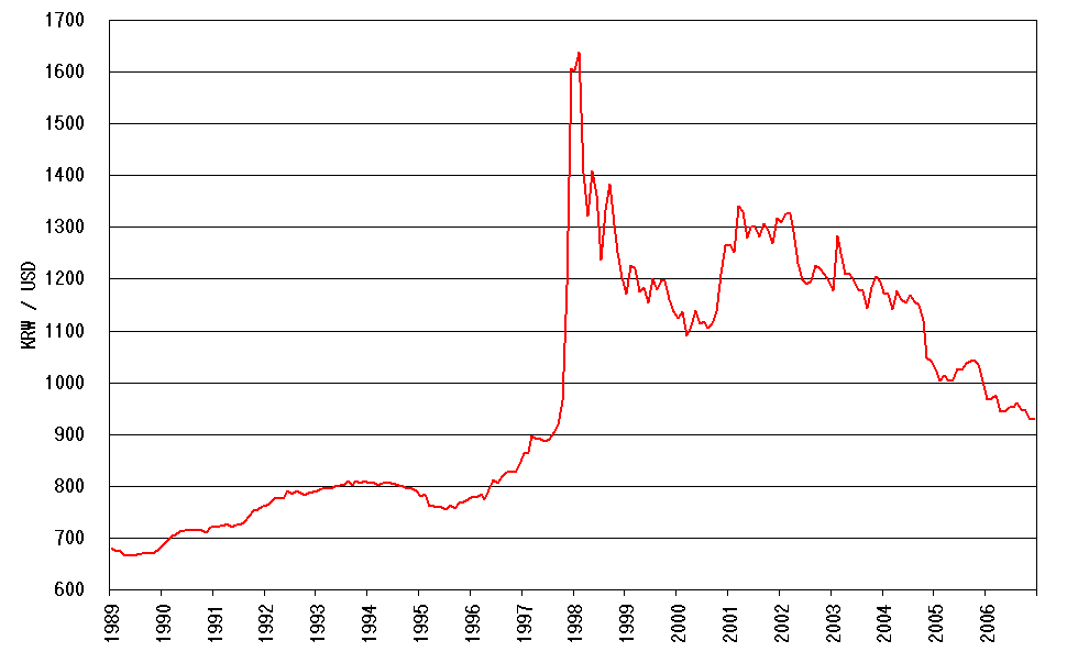 Graph showing South Korean won and U.S. dollar exchange rate from January, 1989 to December, 2006.